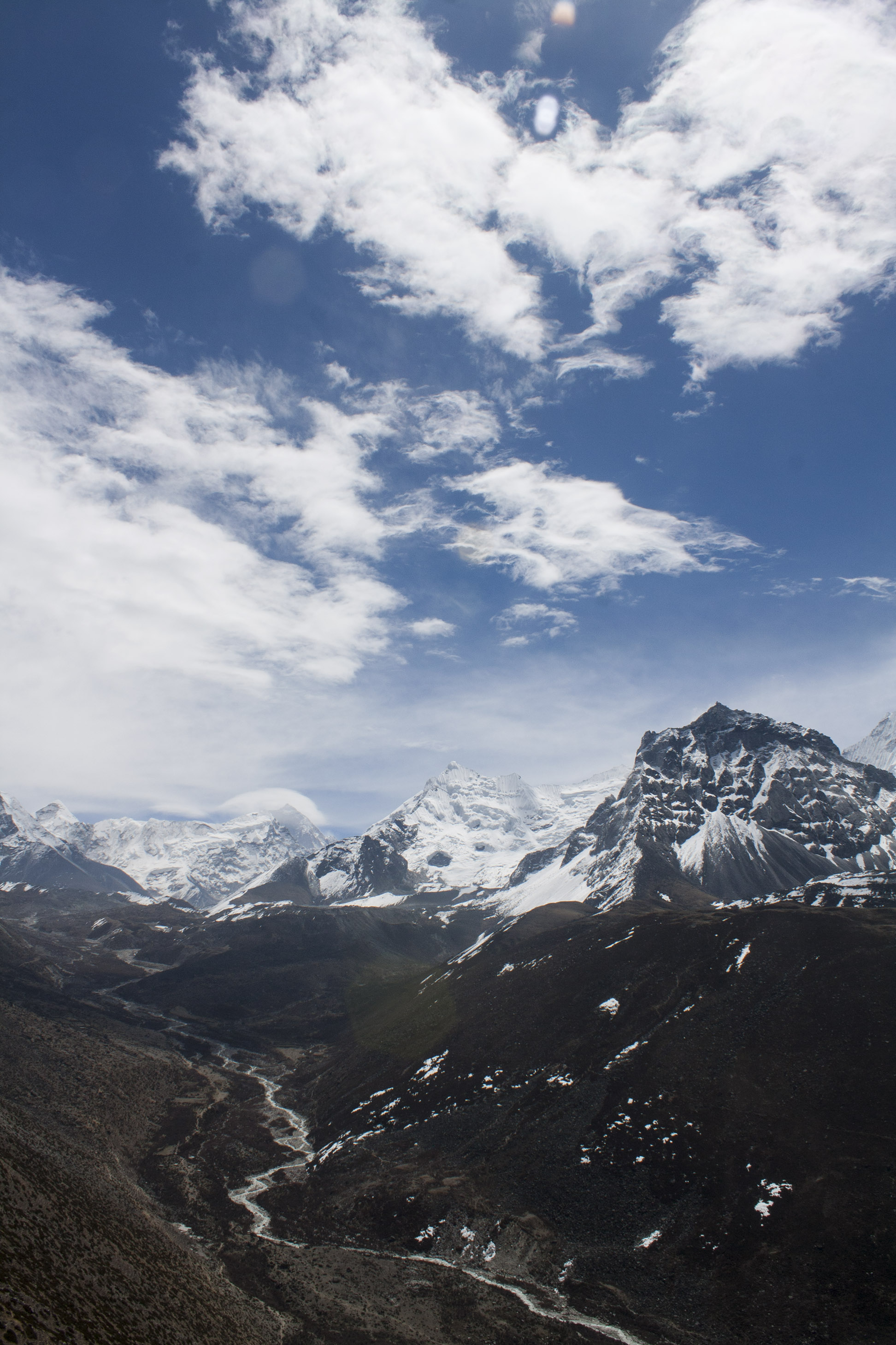 The river valley, surrounded by mountains, looking towards Chhukhung, as seen from the ridge directly above Dingboche while on the Everest Base Camp trek.